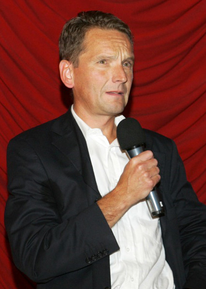 Erwin Wagenhofer at the 2005 premier of his film We Feed the World in Gartenbaukino Vienna, Austria